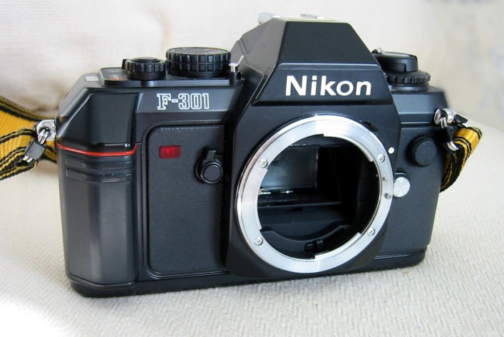 Nikon F-301 SLR-camera (sold in US as N2000)